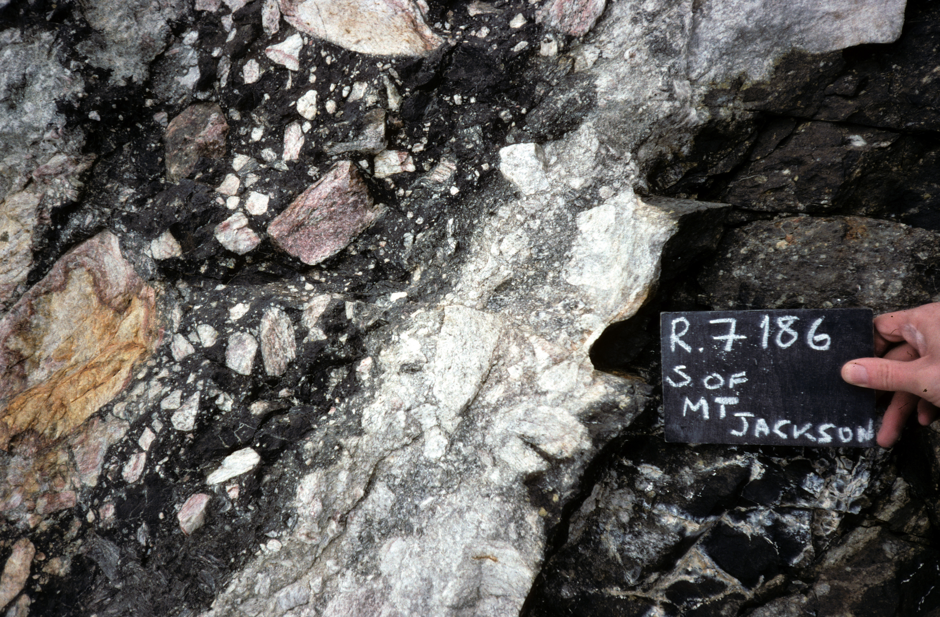 Mount Jackson, Antarctic Peninsula